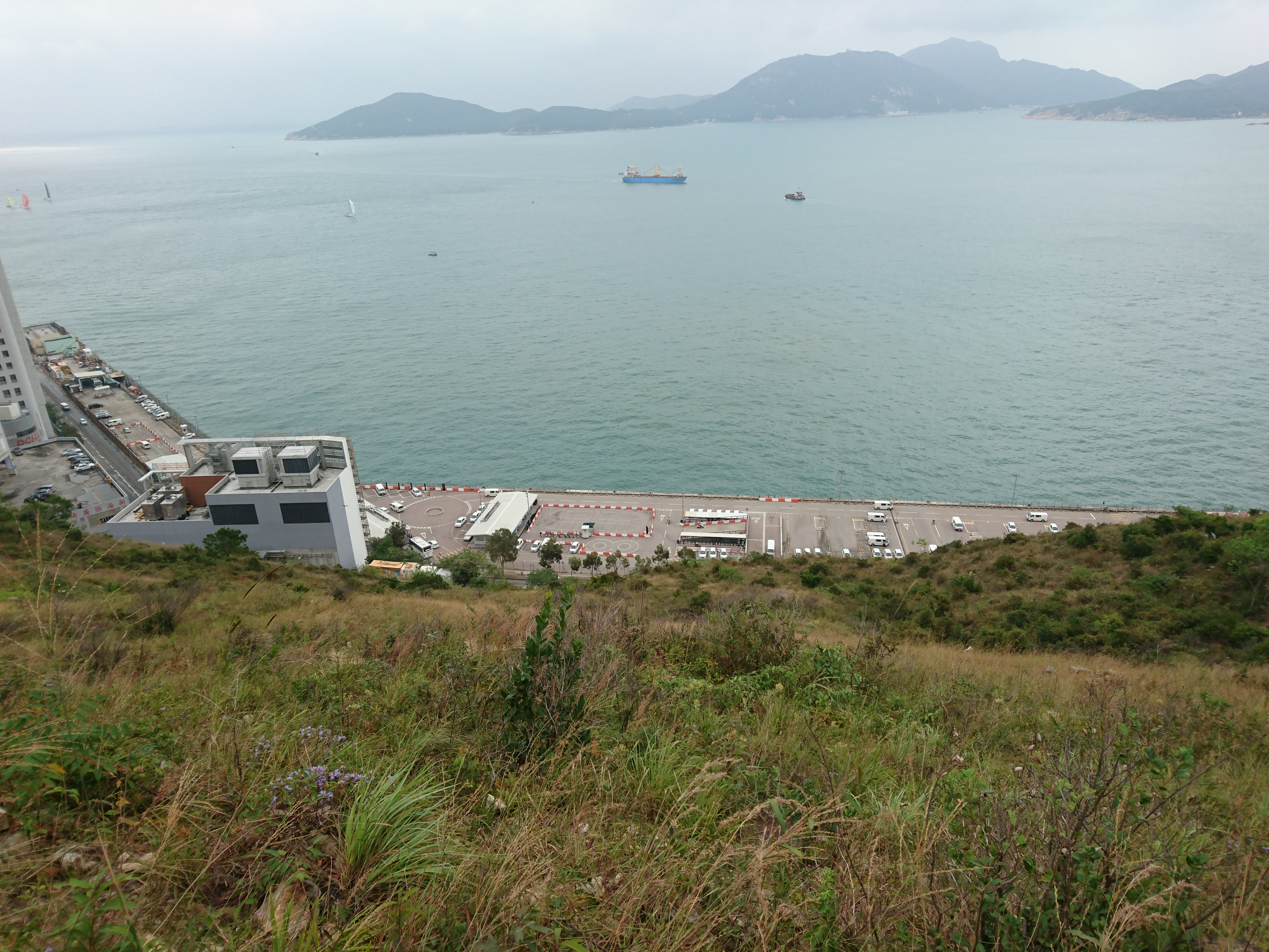 HKSM Ap Lei Chau Driving School viewed from West Yuk Kwai Shan